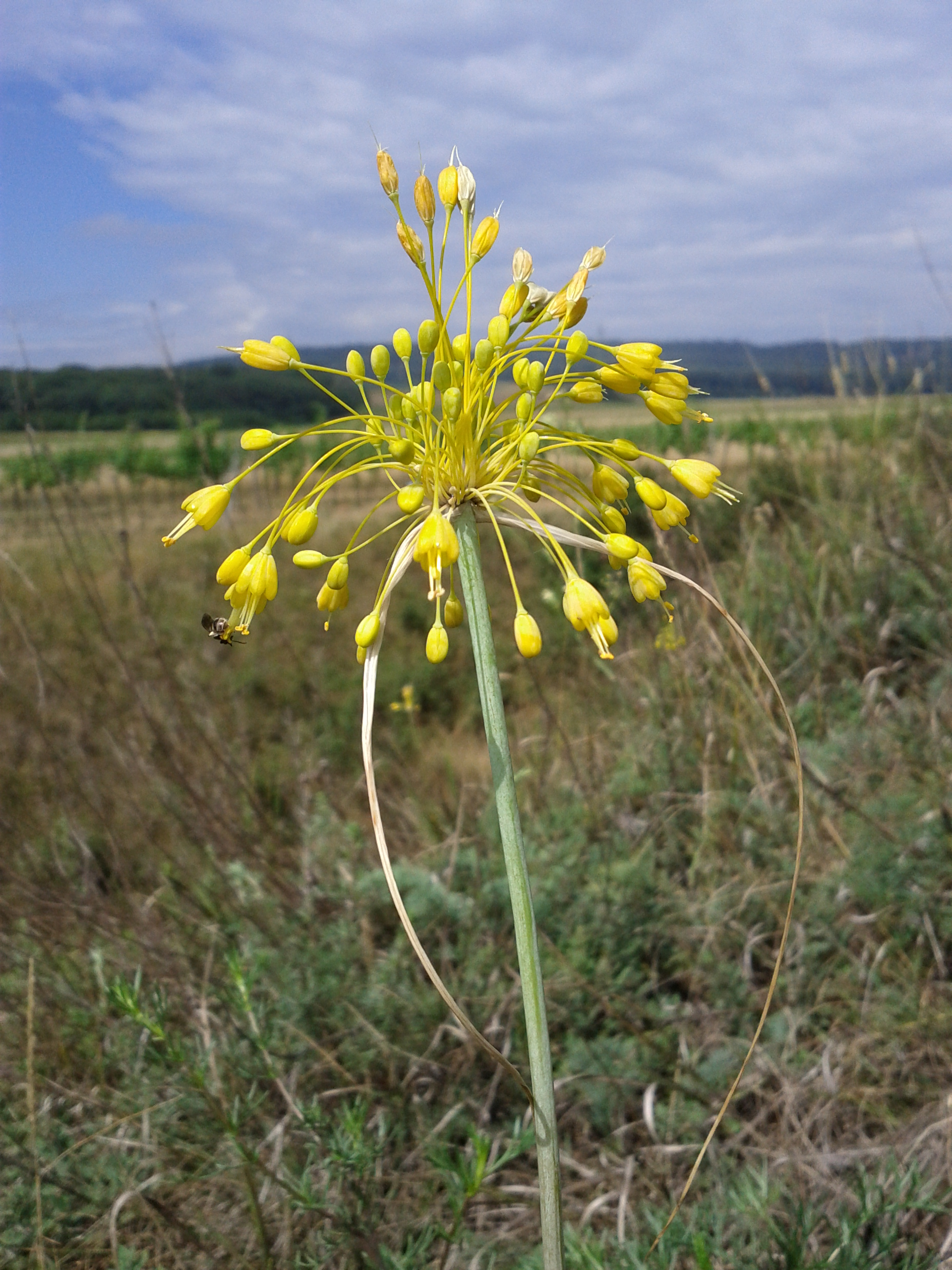 Inflorescence Taxonym: Allium flavum ss Fischer et al. EfÖLS 2008 ISBN 978-3-85474-187-9 Location: Alte Schanzen, object XII, Floridsdorf, Vienna - ca. 225 m a.s.l. Habitat: dry grassland